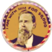 Political button showing Hale Johnson, VP nominee of the National Prohibition Party.